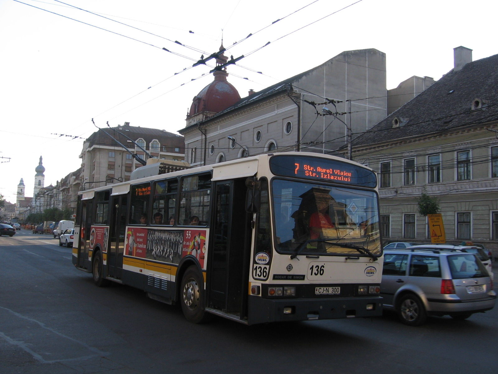 A Rocar/De Simon U412E trolleybus in Cluj. Trolleybus 136 is eastbound on Bulevardul 21 Decembrie 1989 at Bocskai tér, in the city centre.